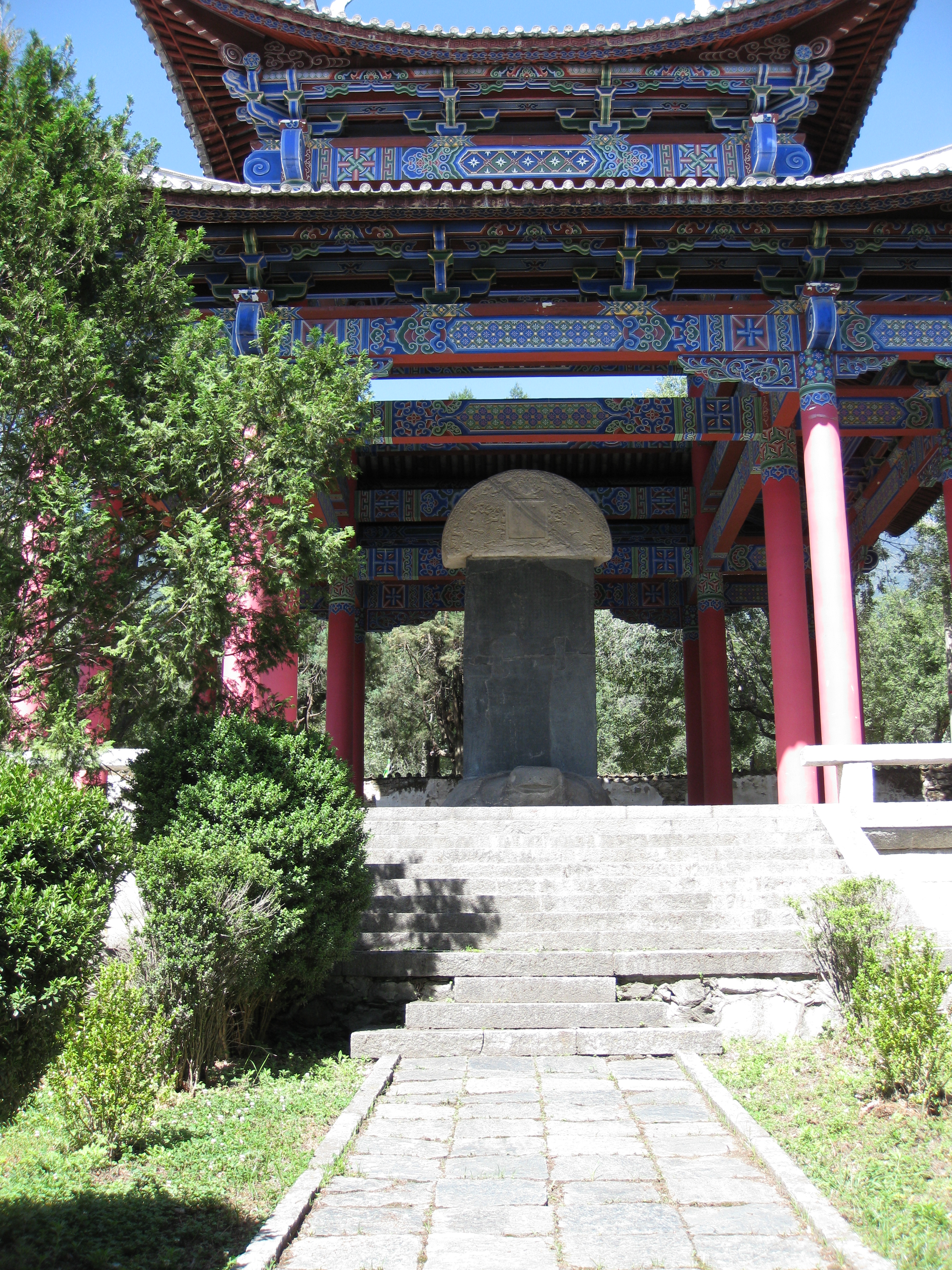 Stele in memory of Kublai Khan's conquest of Yunnan. Erected on top of a large stone tortoise (bixi) in Sanyue Lane (三月街) at the foot of the Cang Mountain, west of of the Old City of Dali